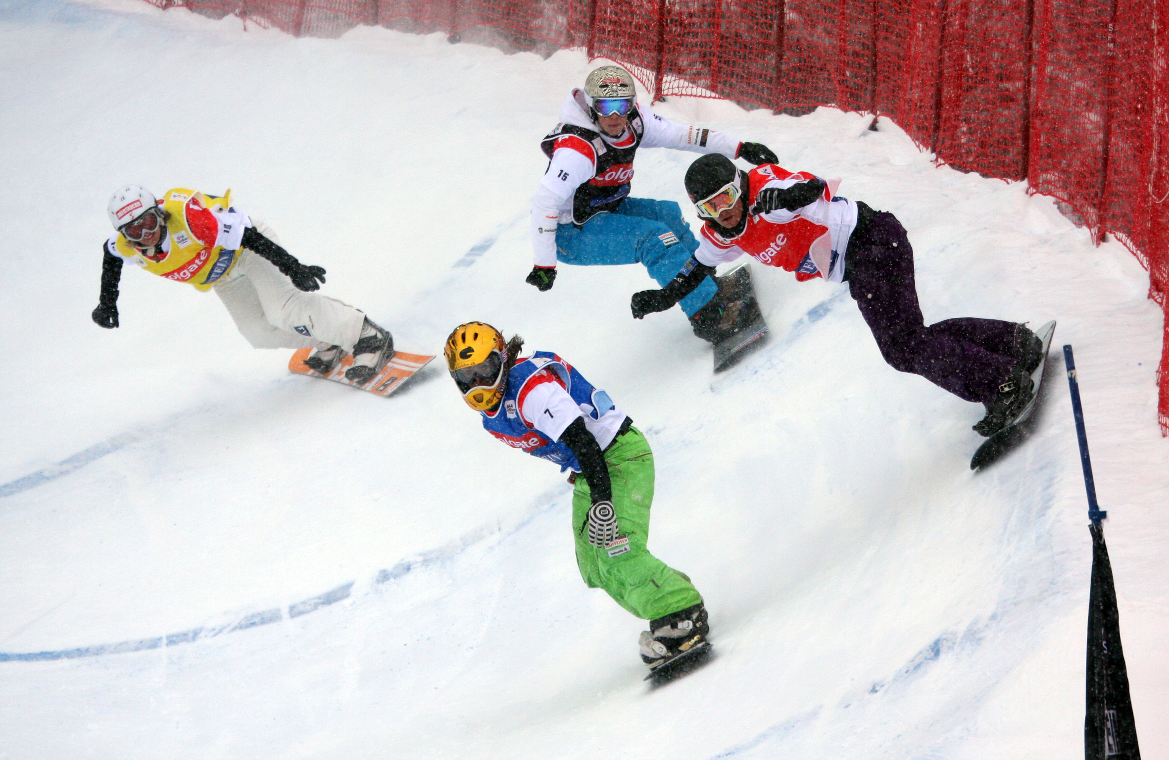 This is the fourth quarterfinal of the women's snowboard cross that took place in Bad Gastein, Austria on 10 January, 2012. Mellie Francon leads with Maelle Ricker in second, Simona Meiller in third, with Doris Krings in the rear.